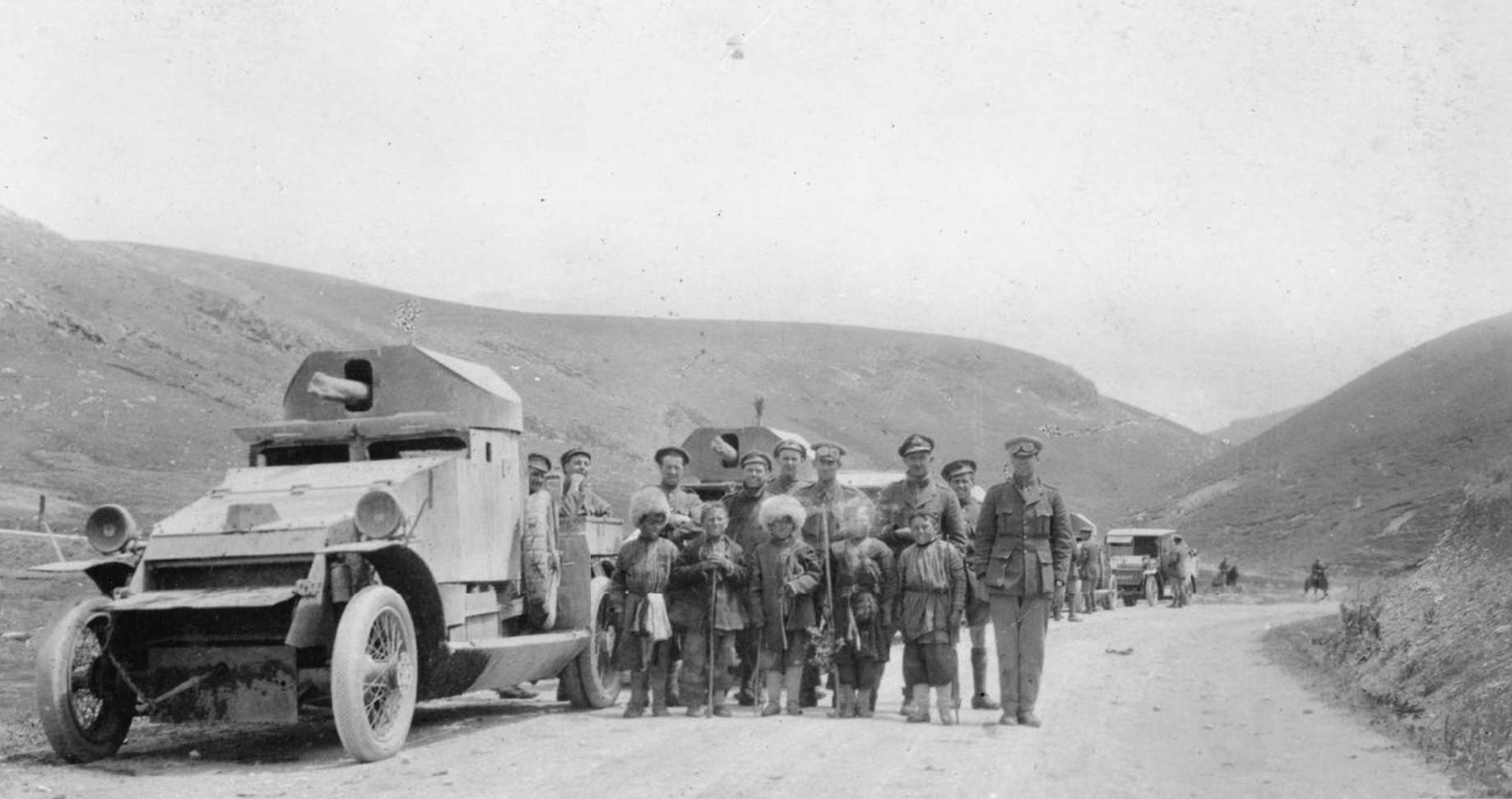 Lanchester armoured cars and crews of the Russian Armoured Car Division with local children in Armenia, 1916. The officer on the far right is probably Lieutenant Turner.